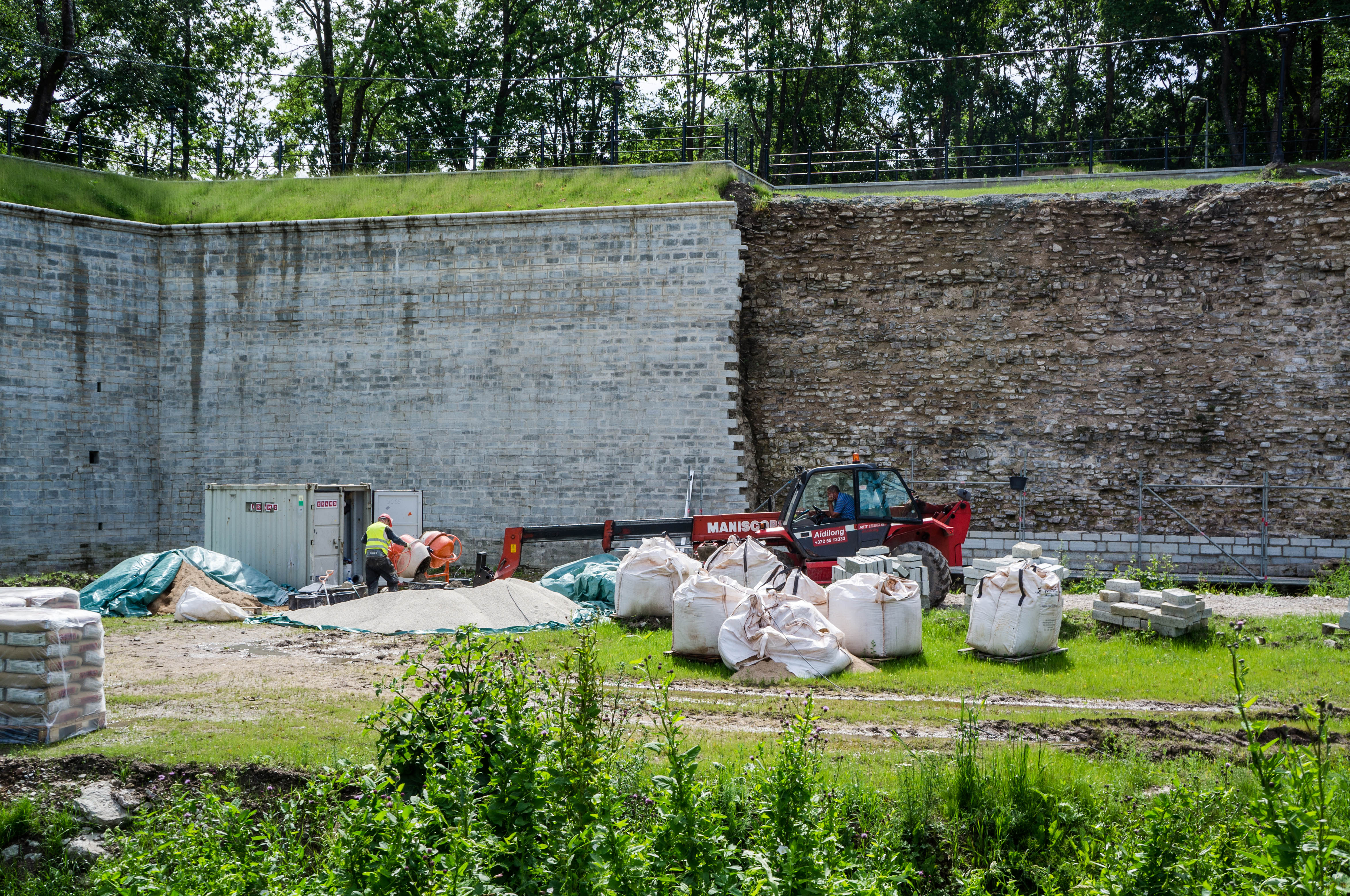 Bastions in Narva (2016)